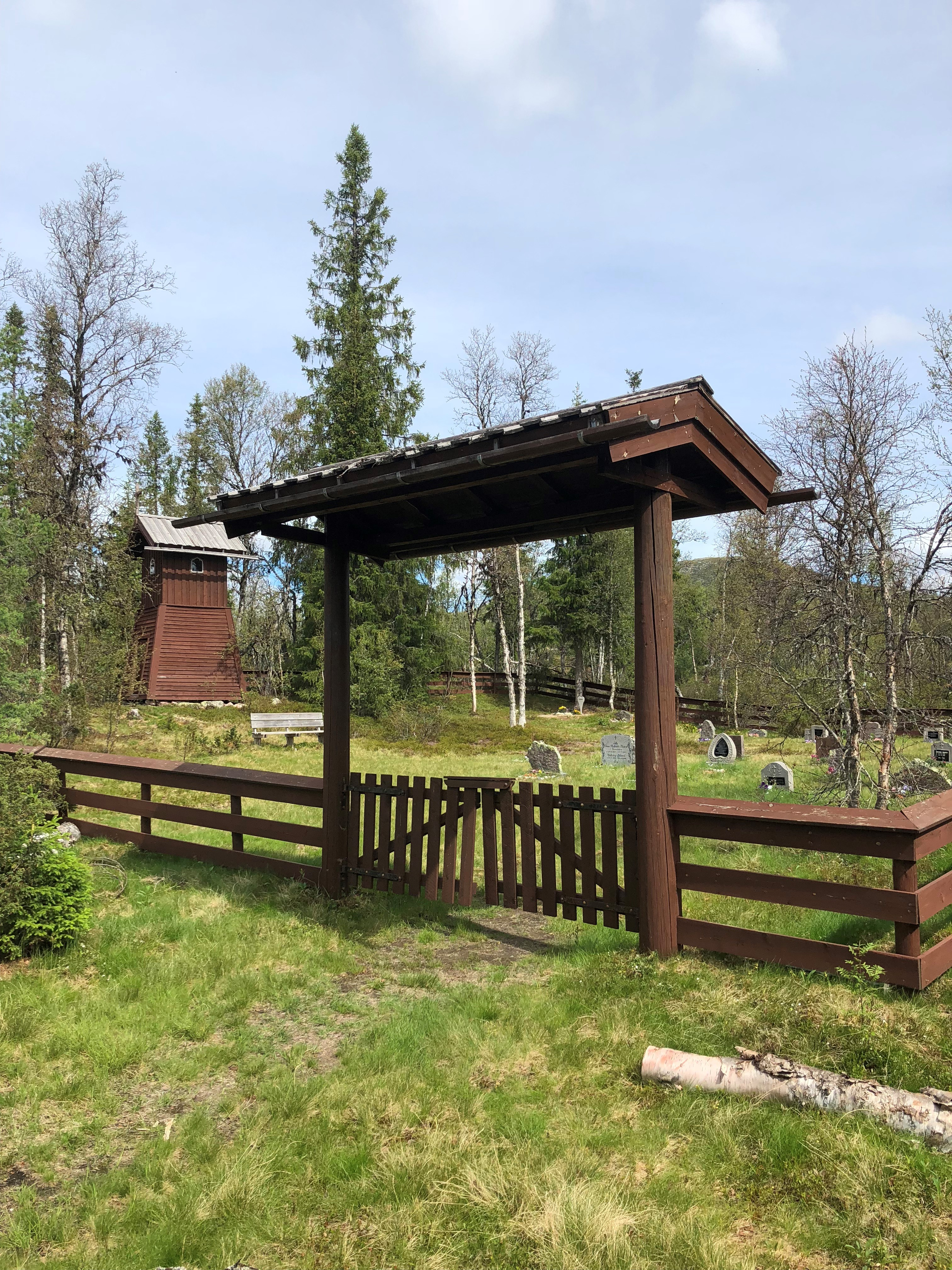 Drevdalen graveyard in Trysil, Norway